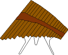 This drawn image of Paixiao is based on non-free photo of this wind instrument